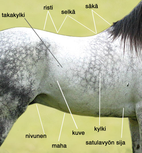 Mid part of a grey horse in profile with morphology in Finnish